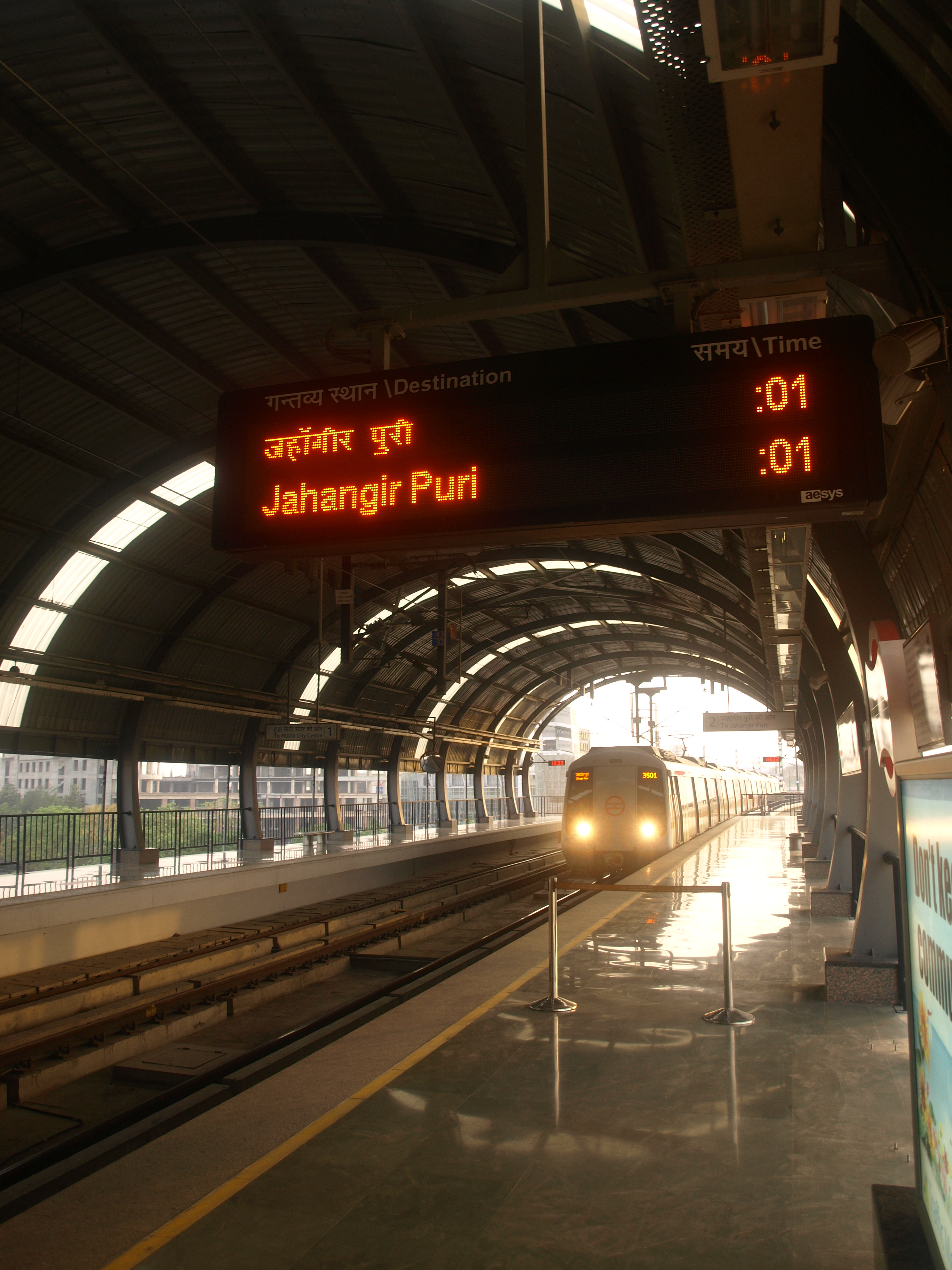 New Delhi Met Office, India